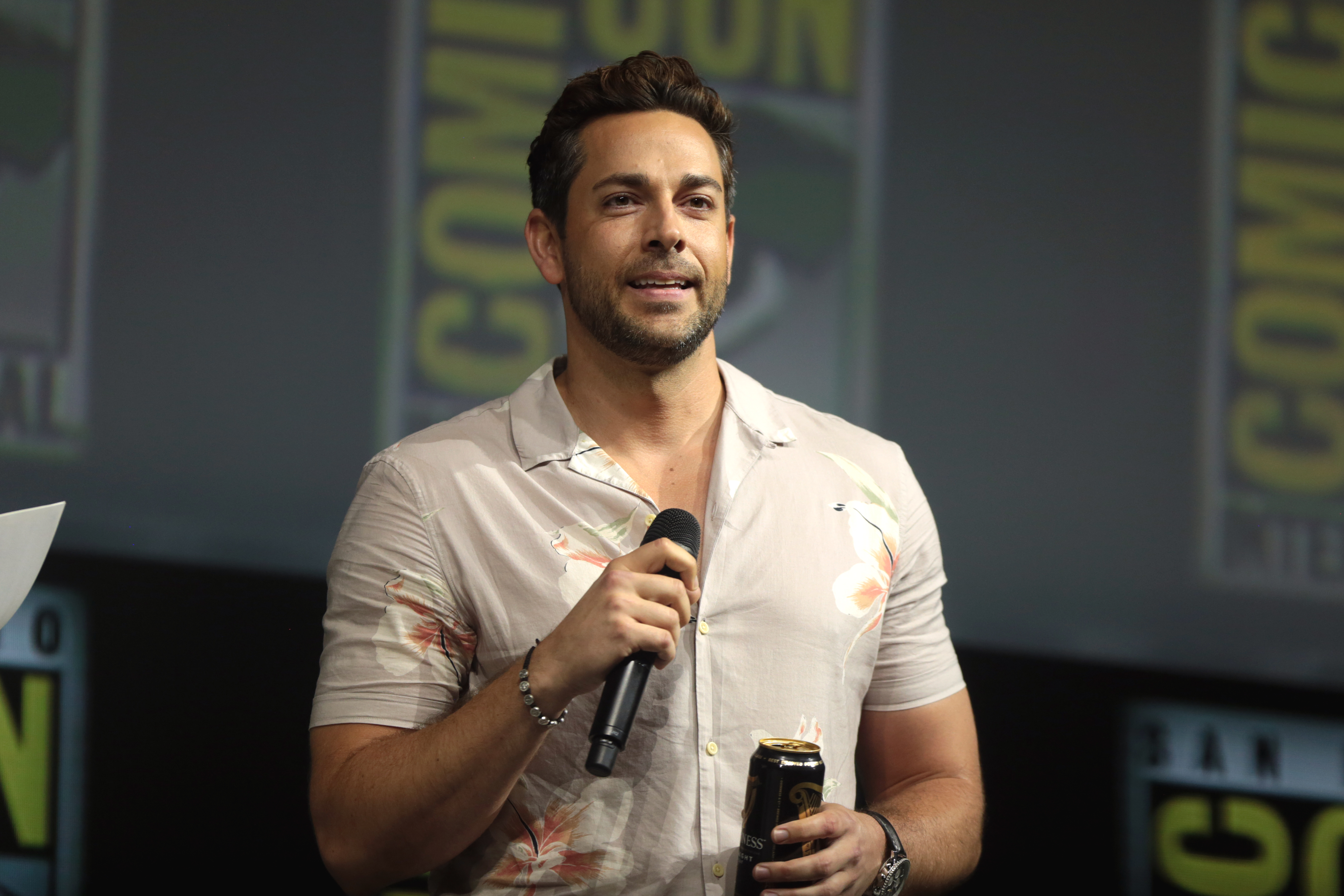 Zachary Levi speaking at the 2018 San Diego Comic Con International, for "Shazam!", at the San Diego Convention Center in San Diego, California.